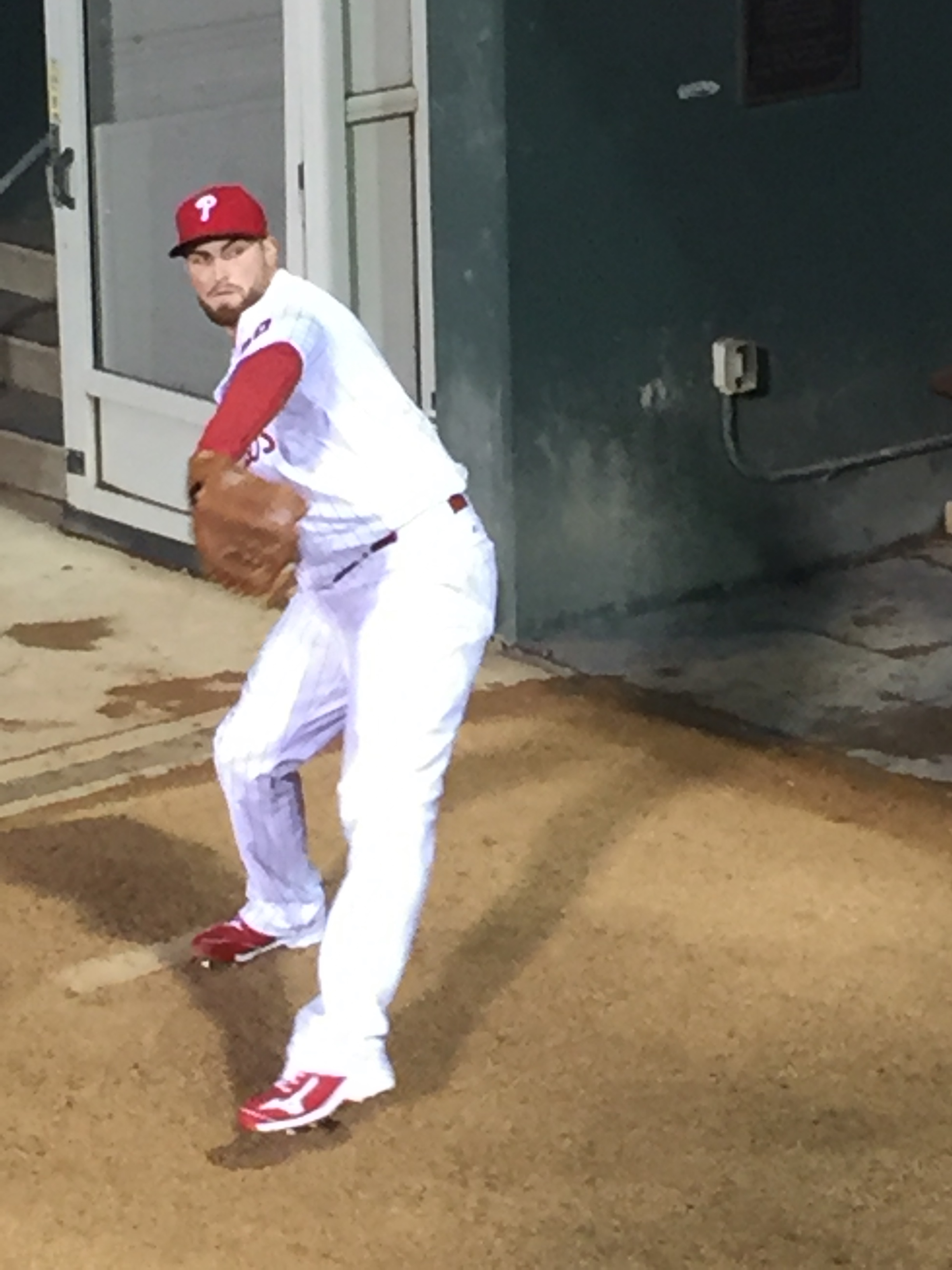 Phillies pitcher Alec Asher warms up before a start on October 3rd, 2015 at Citizens Bank Park.